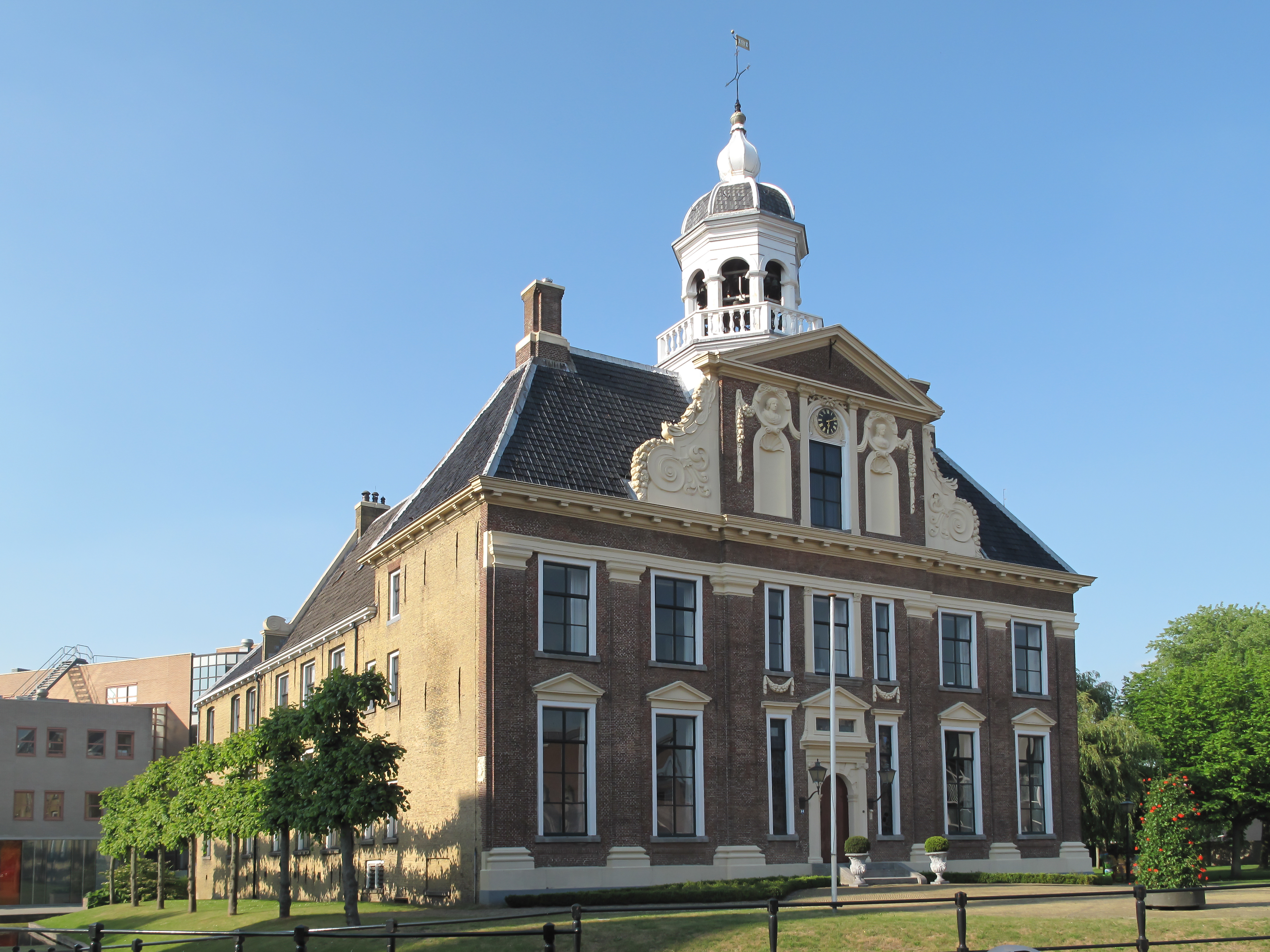 Heerenveen, townhall Crackstate